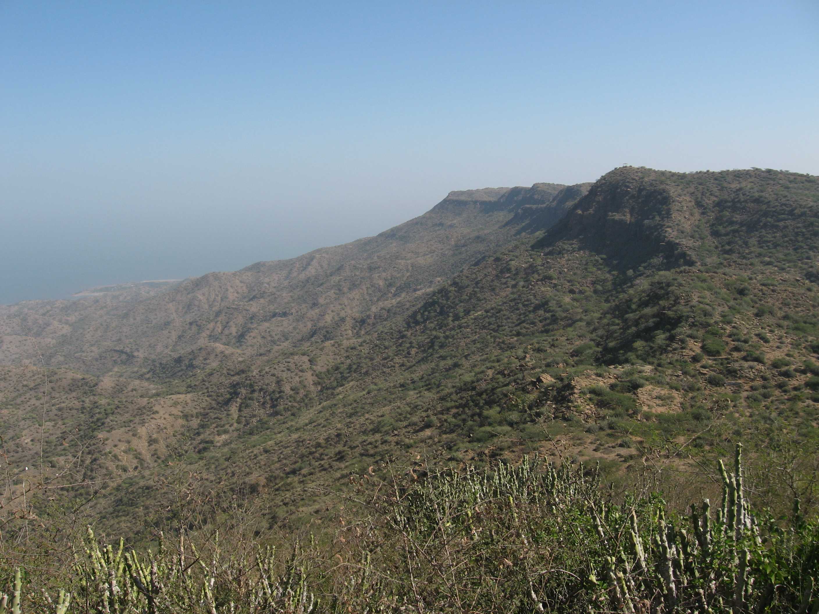 amazing view from kala dunger situated in the kutch